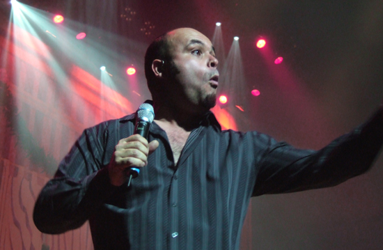 Tyler Stewart, of Canadian musical group Barenaked Ladies, at Massey Hall in downtown Toronto, Ontario.